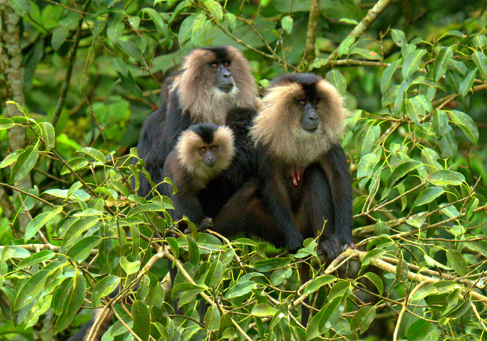 Lion-tailed macaque Macaca silenus